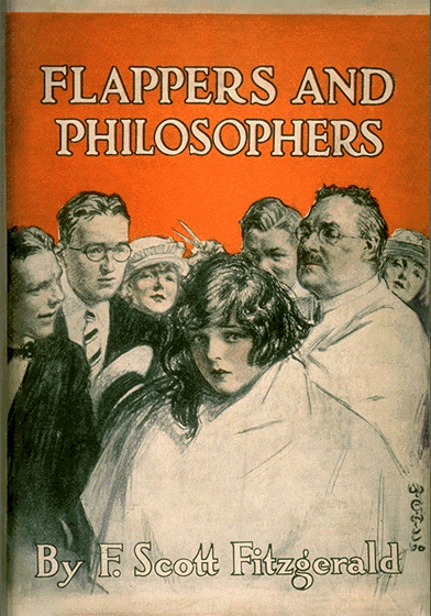 The dust jacket cover to the 1920 first edition of Flappers and Philosophers by F. Scott Fitzgerald, published by Scribners. Illustration by W. E. Hill.